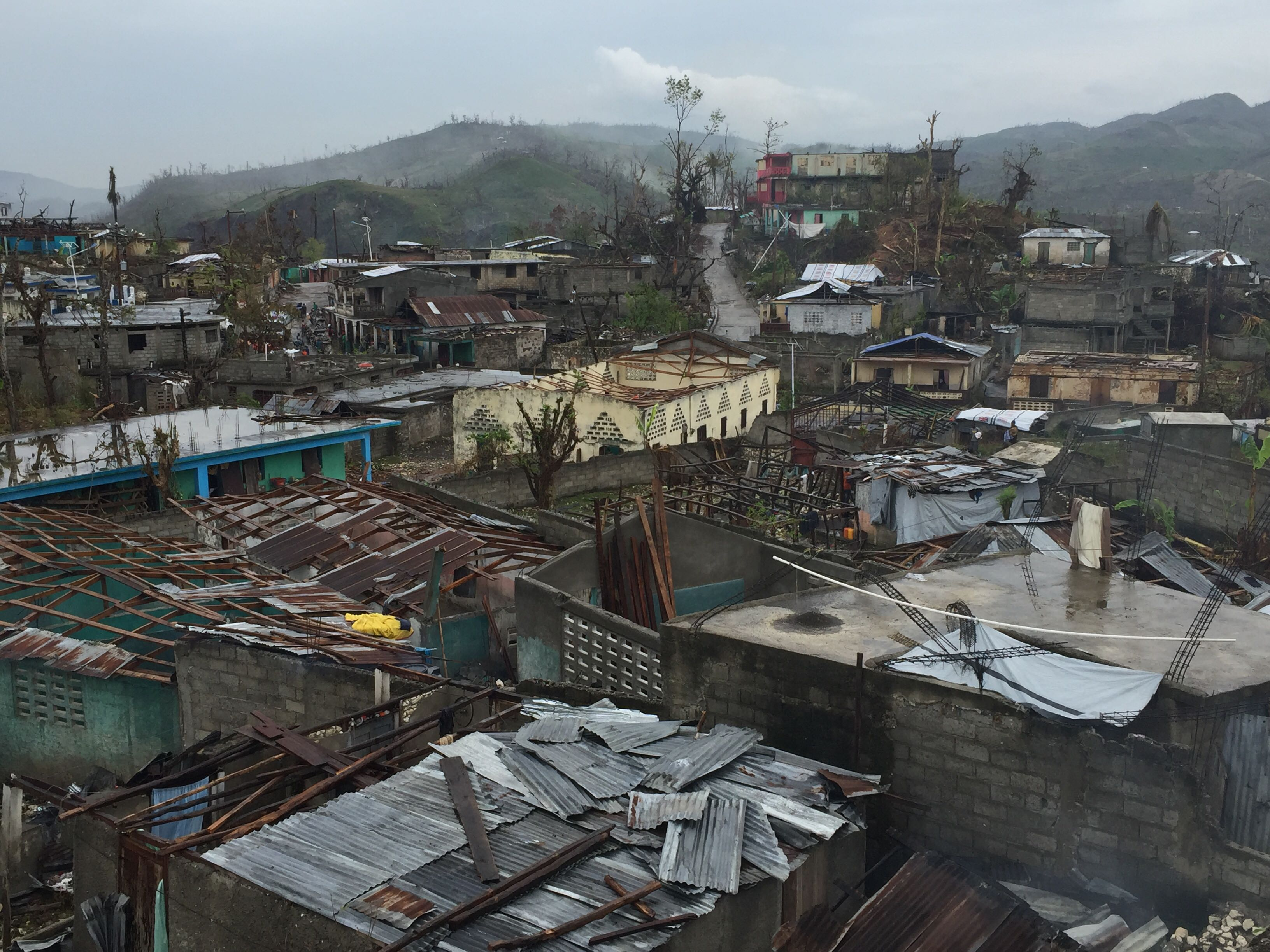 Damage in the city of Moron, Haiti, following Hurricane Matthew